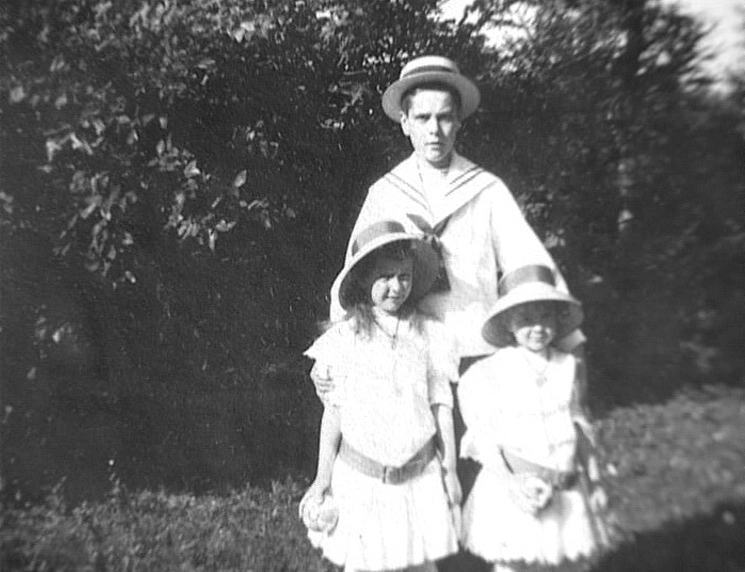 Vladimir, Irene and Natalia, children of the second marriage of the Grand Duke Paul Alexandrovich of Russia